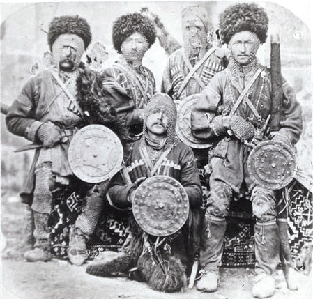 Types of Life: Khevsur, a subgroup of Georgians